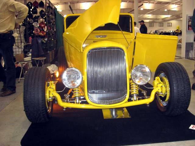 Deuce roadster front view, from local car show